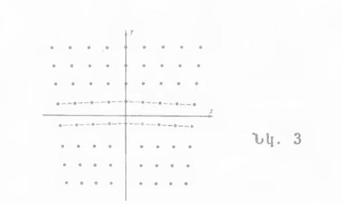 Նկար 3